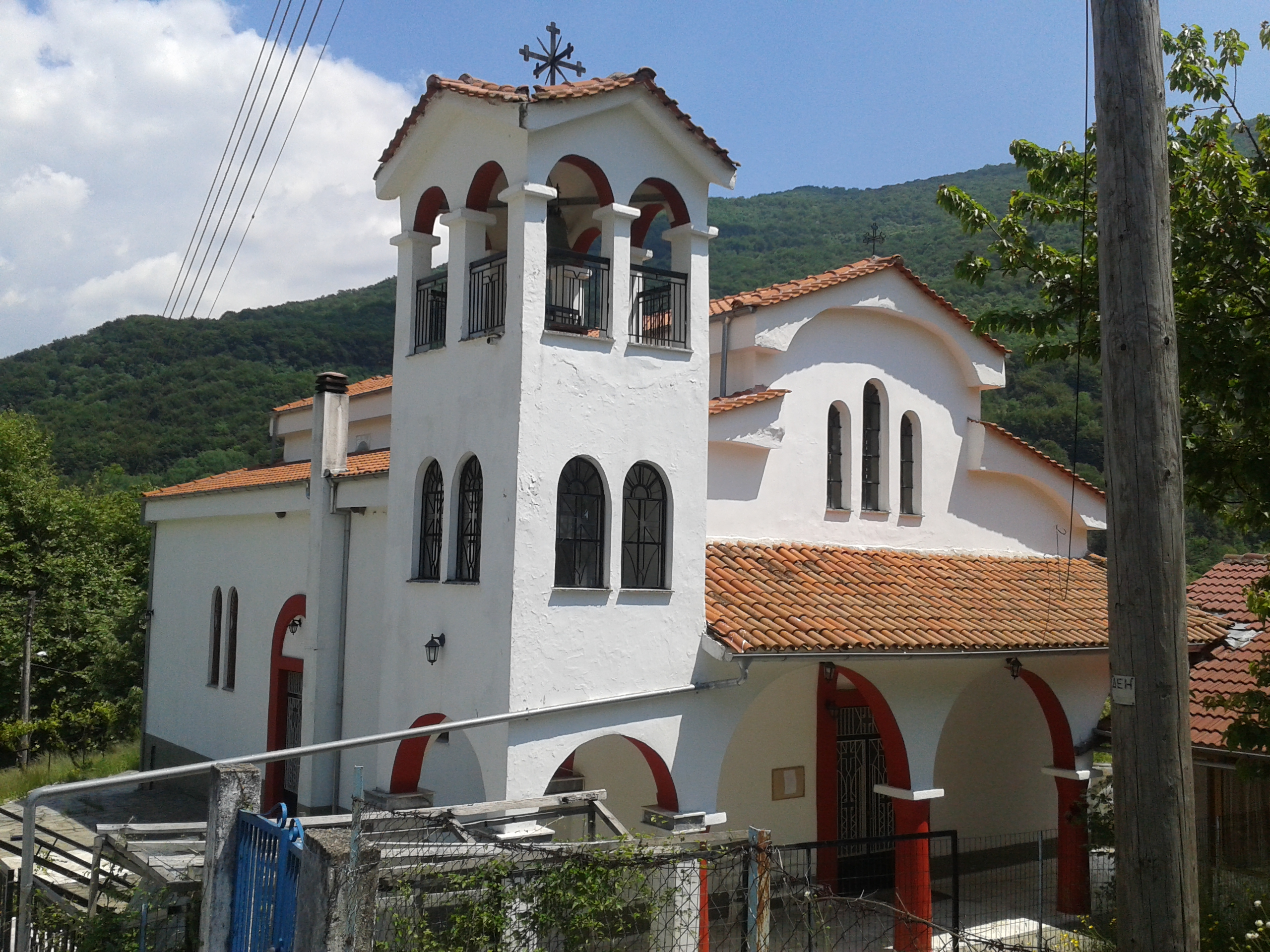 Archangels Church in Granitis